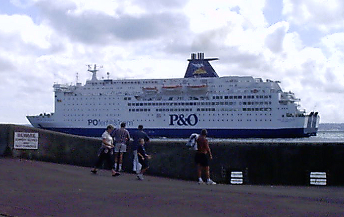 I took this myself on a day out. (P&O Ferries Pride of Le Havre)